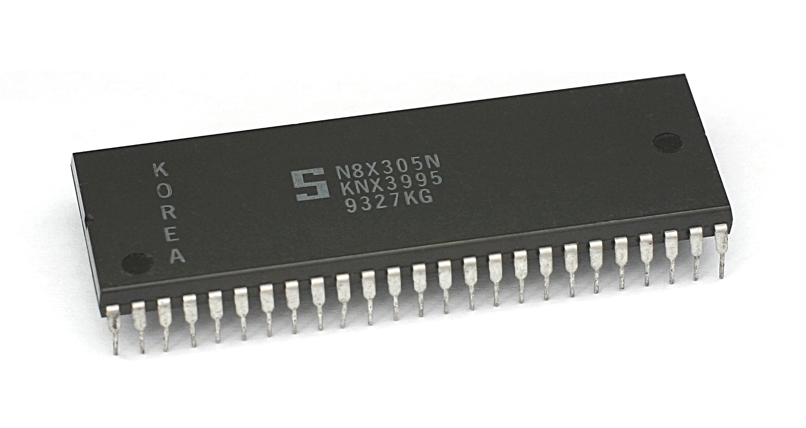 CPU Signetics N8X305N